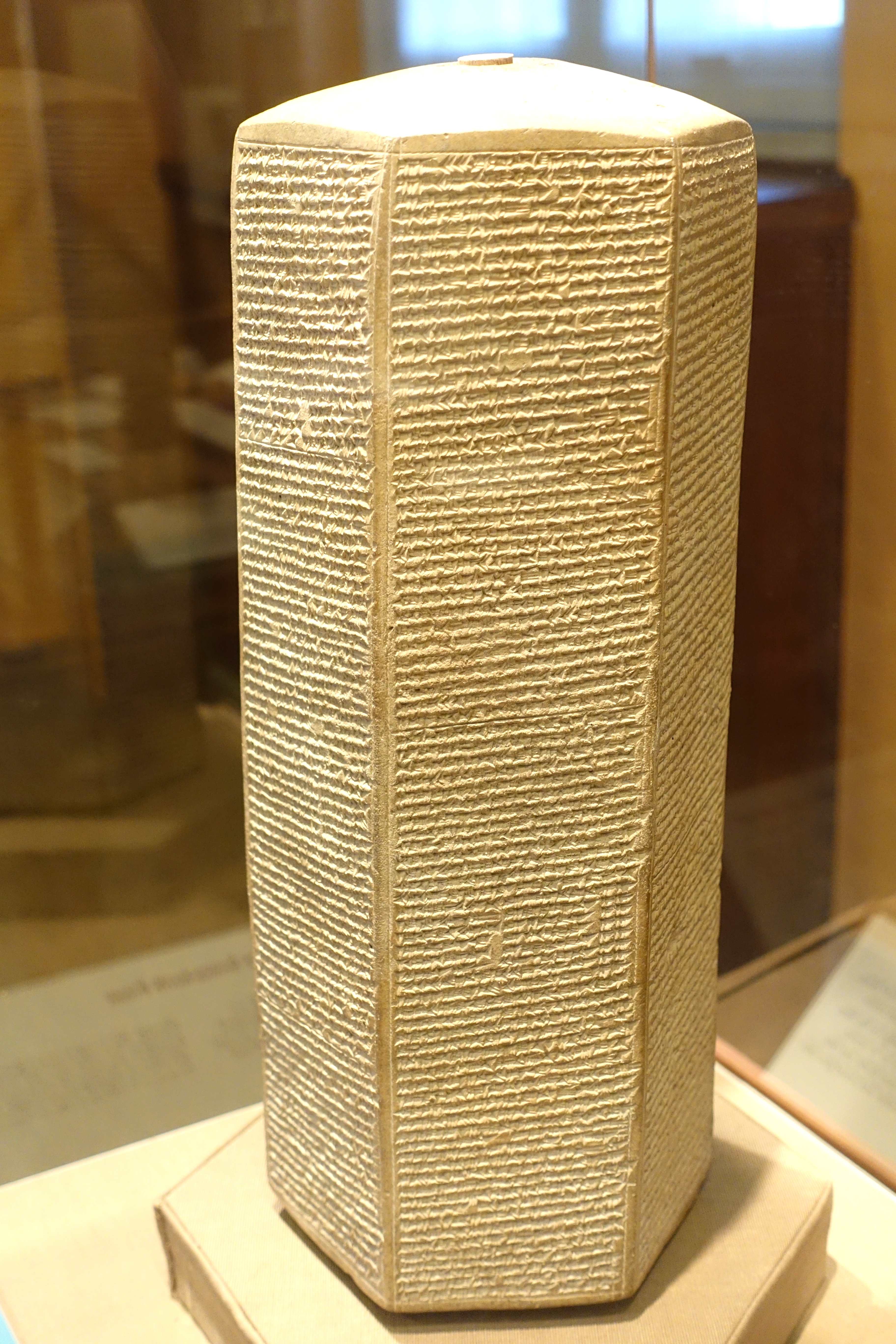 Exhibit in the Oriental Institute Museum, University of Chicago, Chicago, Illinois, USA. This work is old enough so that it is in the public domain.